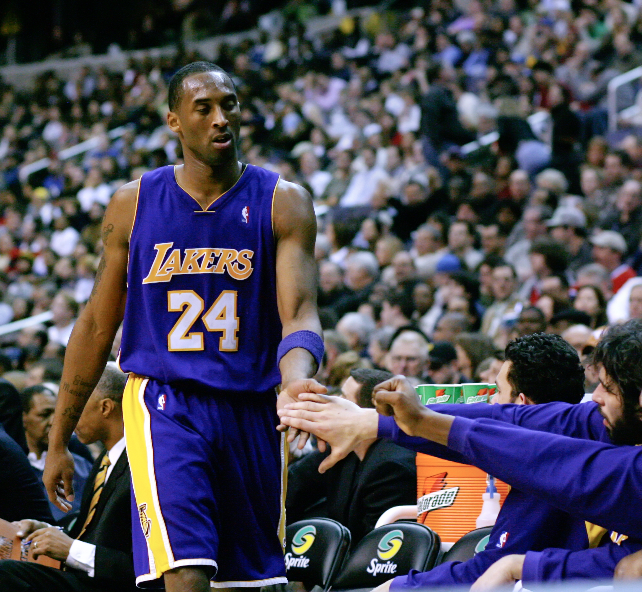 Kobe Bryant subs out vs the Washington Wizards.